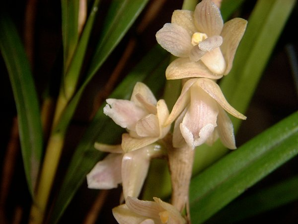 Despite contrary information, it seems Ponera australis is a good species.